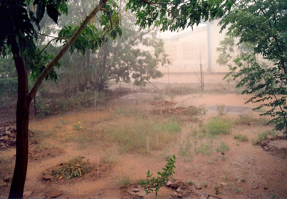 Rain over a staff-house garden at Lotsane Senior Secondary School, Palapye, Botswana. This must be early in the rainy season, because although the trees are green there is only a small patch of grass. Most of the trees are self-planted natives or naturalised species, but the small plant with a water reservoir, bottom-centre, is a cultivated citrus tree. The boys' boarding hostel is just visible through the downpour. Taken c. 1995 on film.